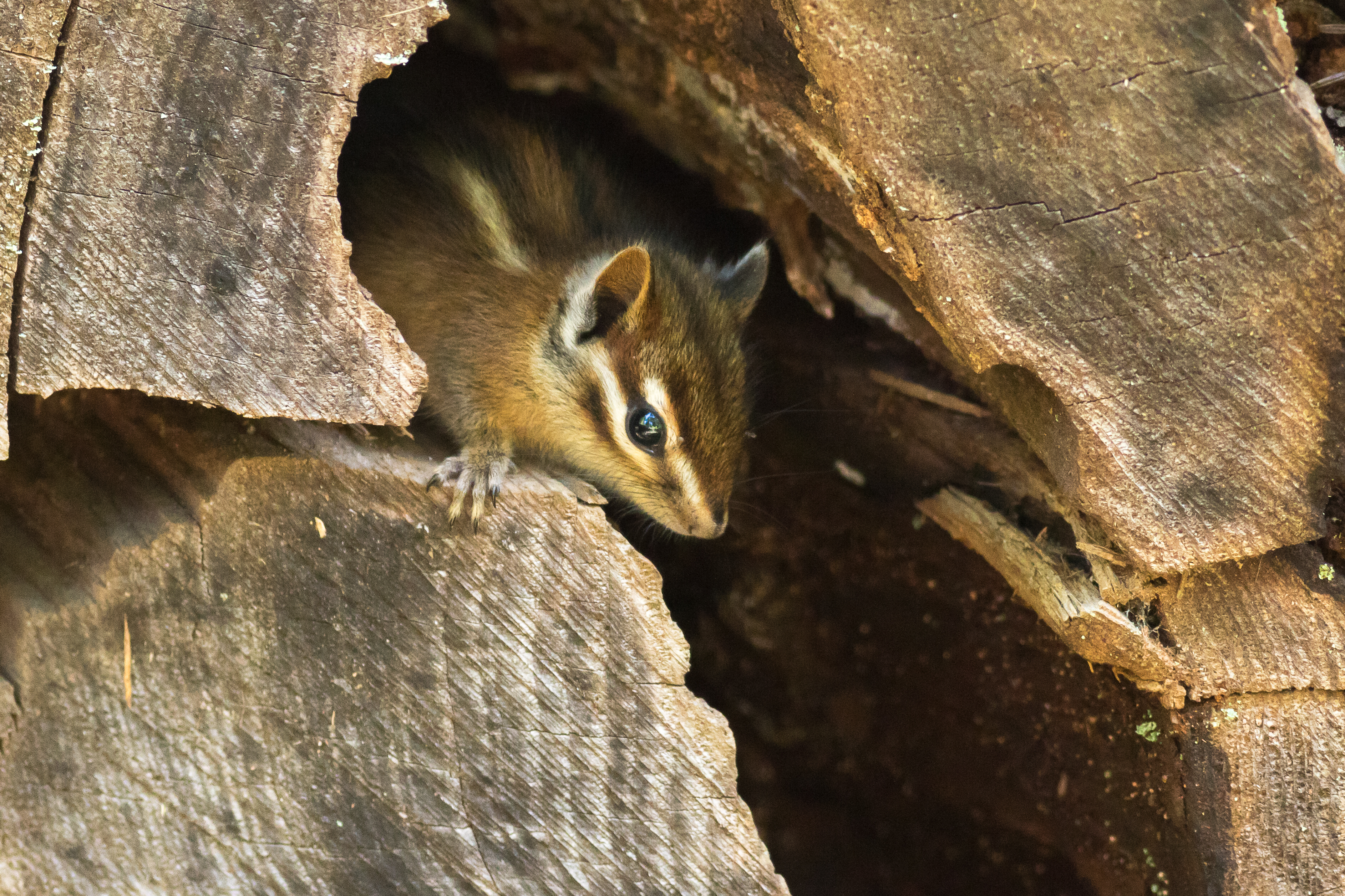 Juvenile Sonoma chipmunk (Tamias sonomae) hiding in a dead tree in Samuel P. Taylor State Park, Marin County, California